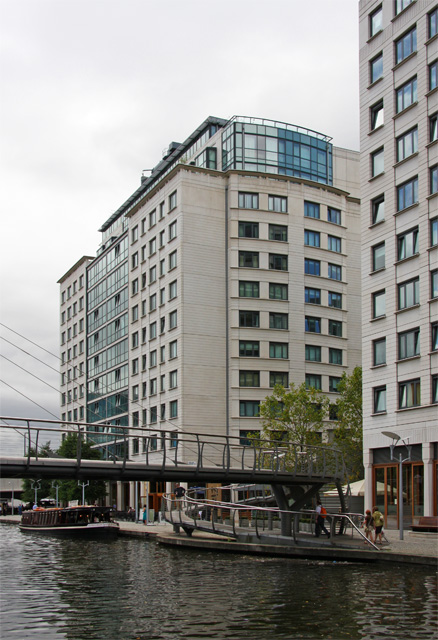 Sheldon Square Offices, restaurants and shops, part of the Paddington Waterside Development, viewed from across the canal.